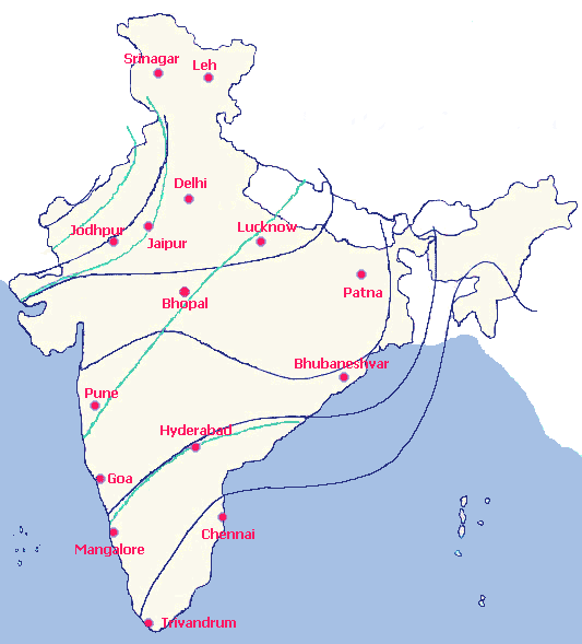 Map of monsoon's progress over India. onset of the summer monsoon rains (dark blue line, bottom right to top left: 1. June 5. June 10. June 15. June 1. July 15. July withdrawal of the summer monsoon rains (bright blue line, top left to bottom right): 1. September 15. September 1. October 15. October